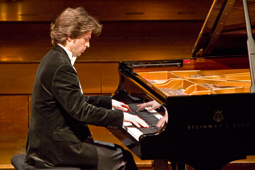 Dominic Piers Smith at the 23th International Piano Competition for Outstanding Amateurs, Paris